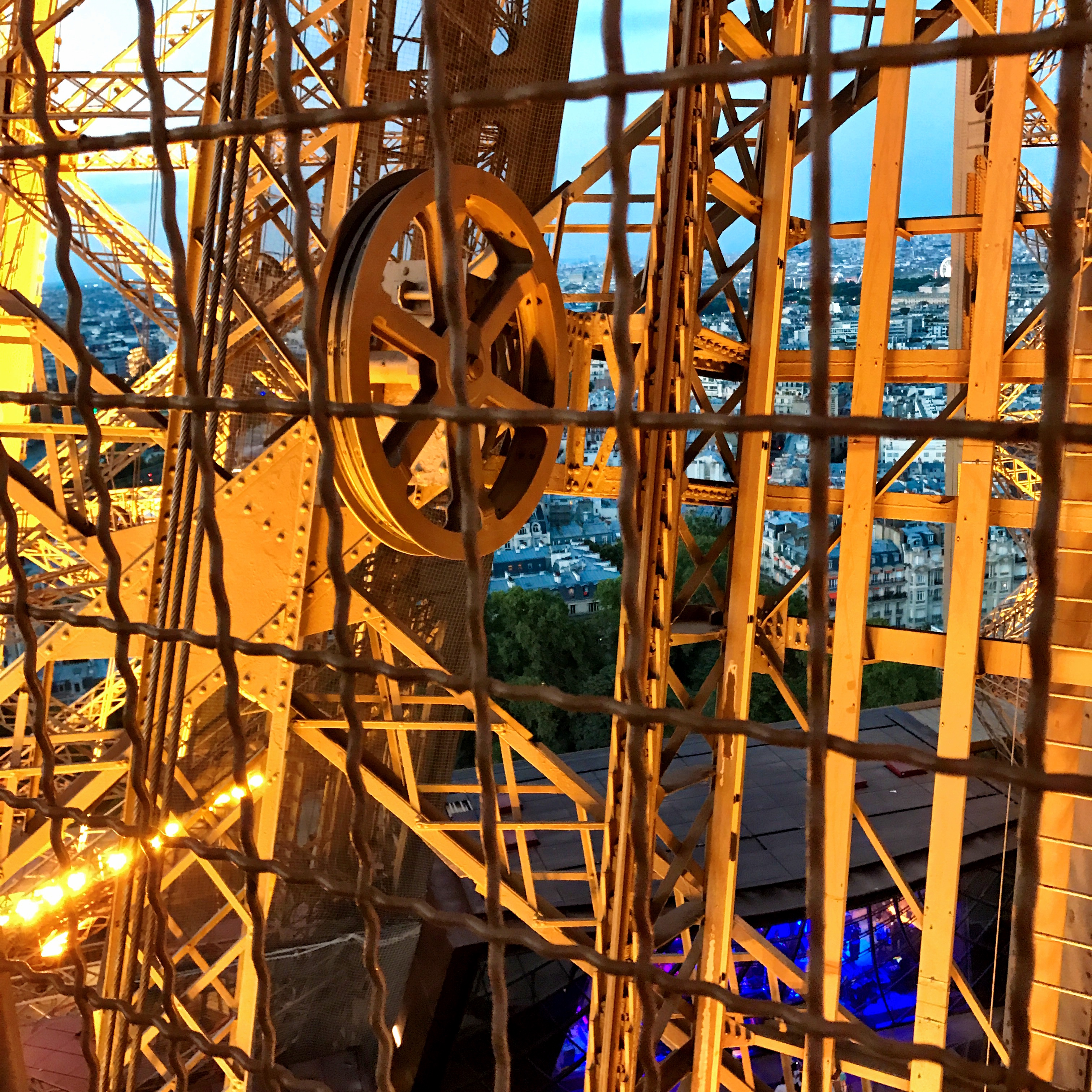 View from inside the Eiffel Tower while descending from an upper floor.